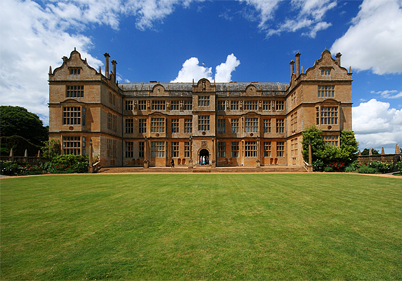 Montacute House East Front It was about the time of the Spanish Armada in 1588 that Sir Edward Phelips, a successful lawyer and Speaker of the House of Commons, commissioned the building of Montacute House. It was probably local builder William Arnold who was given the task of creating Sir Edward's new home in the Somerset countryside. Arnold used local Ham Hill stone to create a symmetrical 'H' plan building owing much to the classical detail of the Renaissance style of architecture. There is a carved date of 1601 over the east doorway, probably denoting the year the house was completed. The Phelips family reigned supreme at Montacute for over three centuries, until the agricultural depression of the late C19 saw the last Phelips leave in 1911, and most of the house contents sold. The house was acquired by the National Trust in 1931. Montacute House is Grade I Listed.